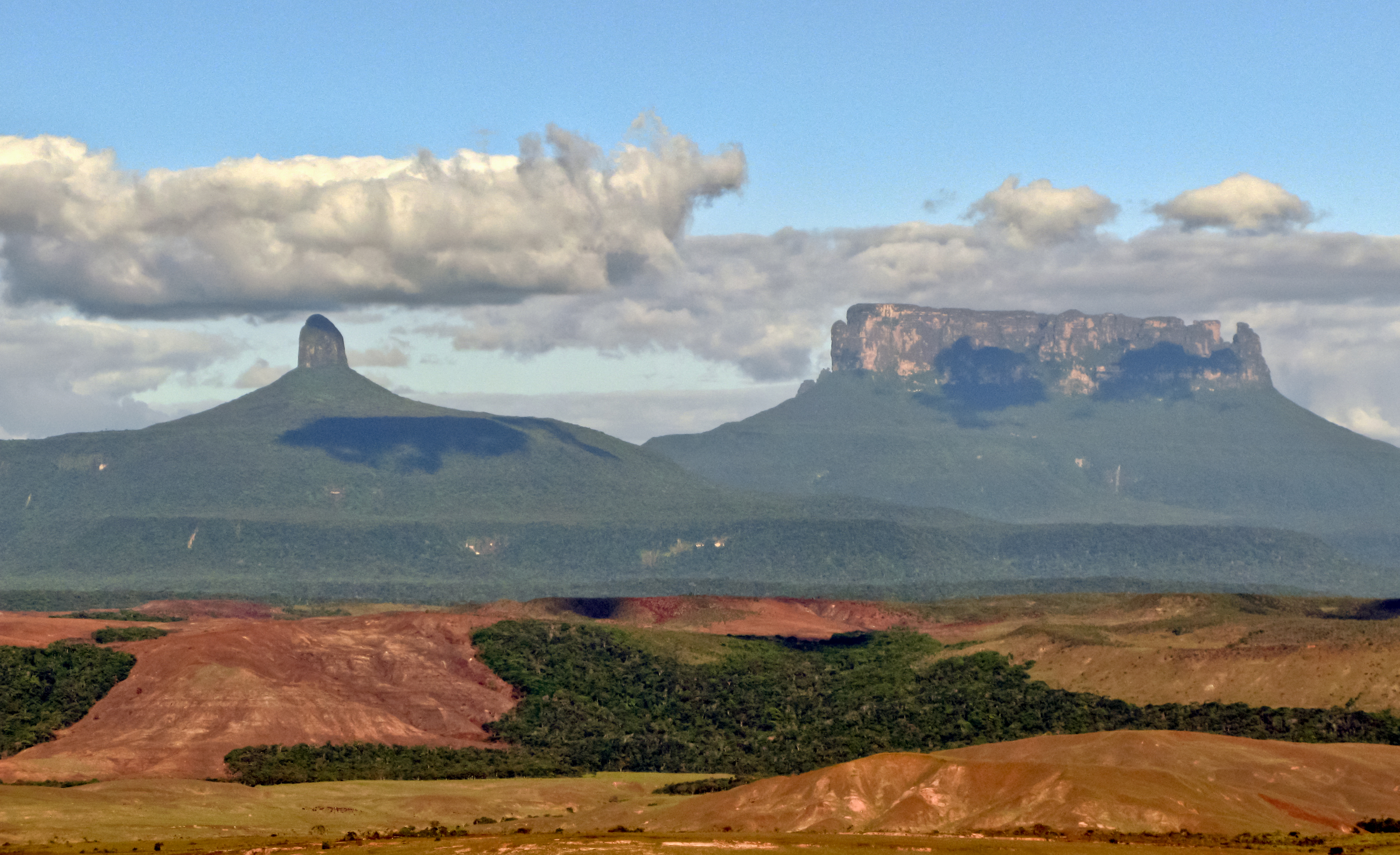 Wadakapiapo and Yuruani tepuy in Gran Sabana, Venezuela